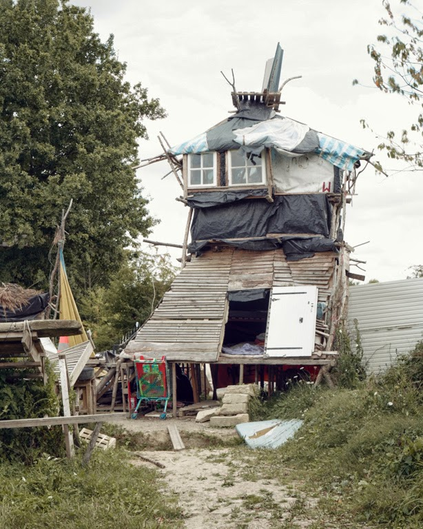 One of the many structures that have been built on roads crossing through Notre Dame des Landes ZAD. This one serves as a lookout tower in preparation of evictions by police